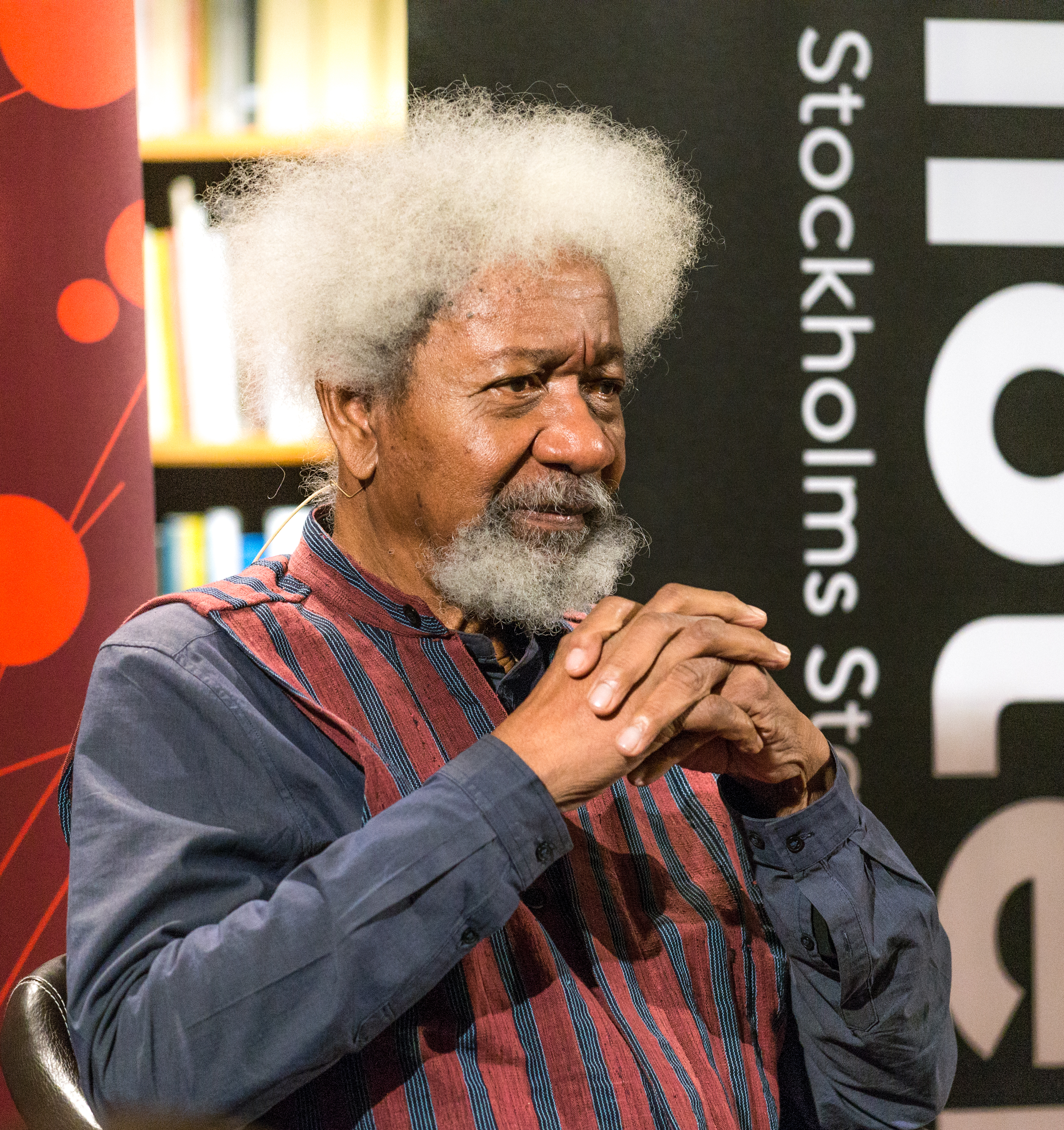 1986 Nobel Prize winner in Literature Wole Soyinka during a lecture at Stockholm Public Library on October 4, 2018.